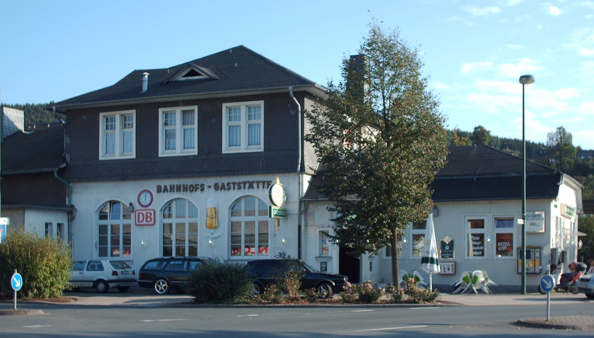 Attendorn Station, Attendorn, Germany check usage